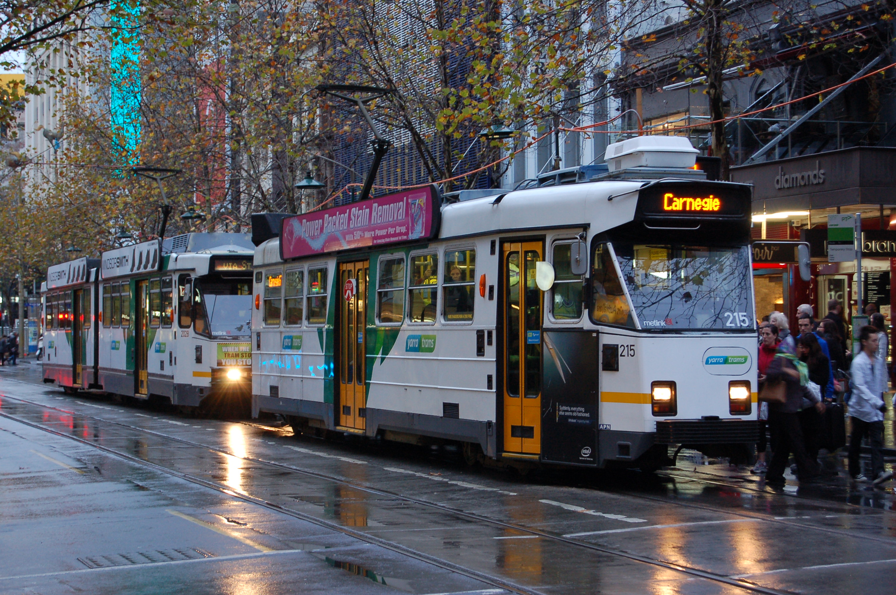 A pair of southbound Melbourne trams embark passengers in Swanston Street just north of Little Collins Street. In front is Z3 class no 215 operating a route 67 service to Carnegie. Behind is B2 class no 2028 with a route 3a weekend service to East Malvern via St Kilda.